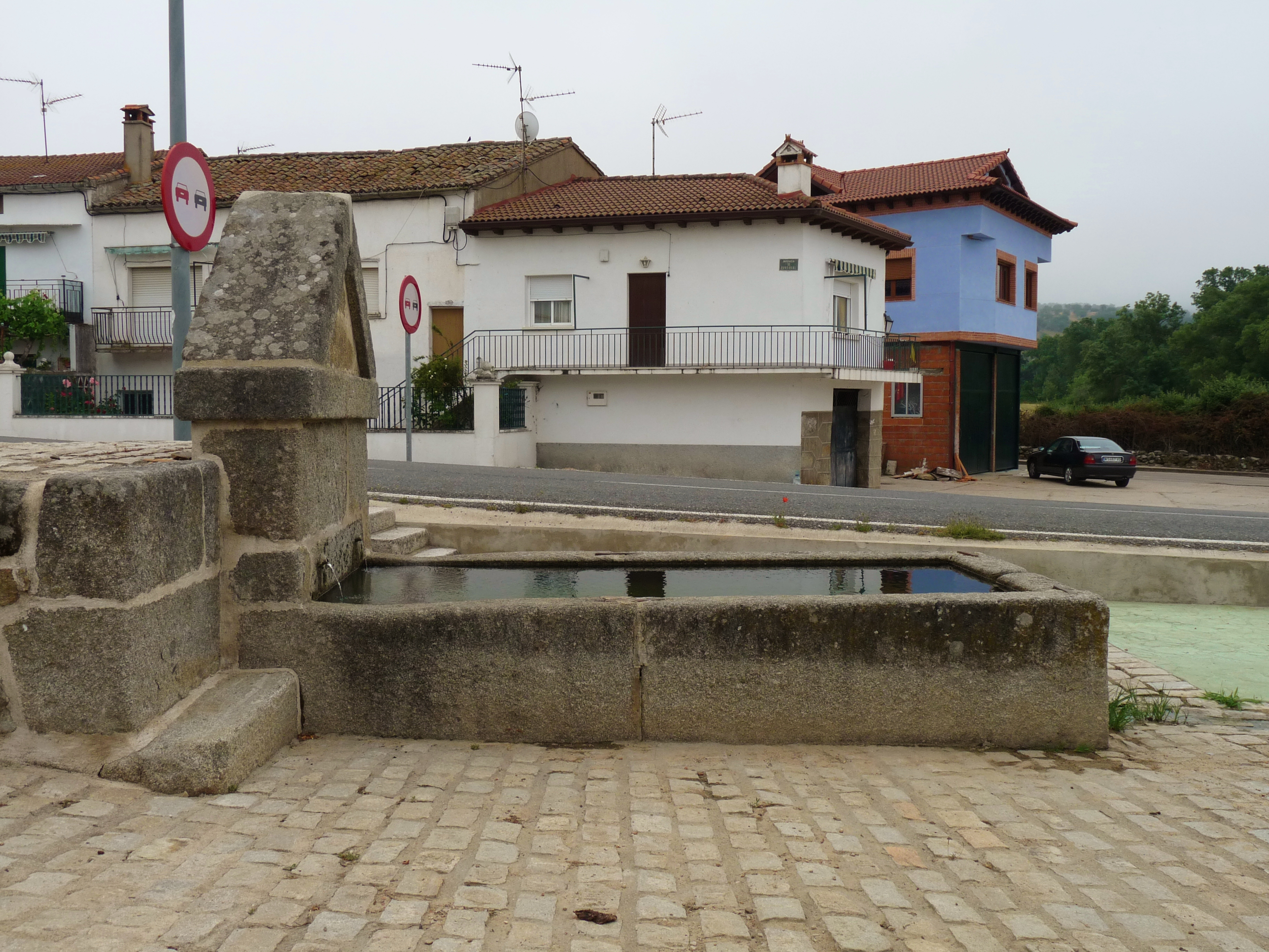 Fountain in Higuera de las Dueñas, Ávila, Castile and León, Spain.